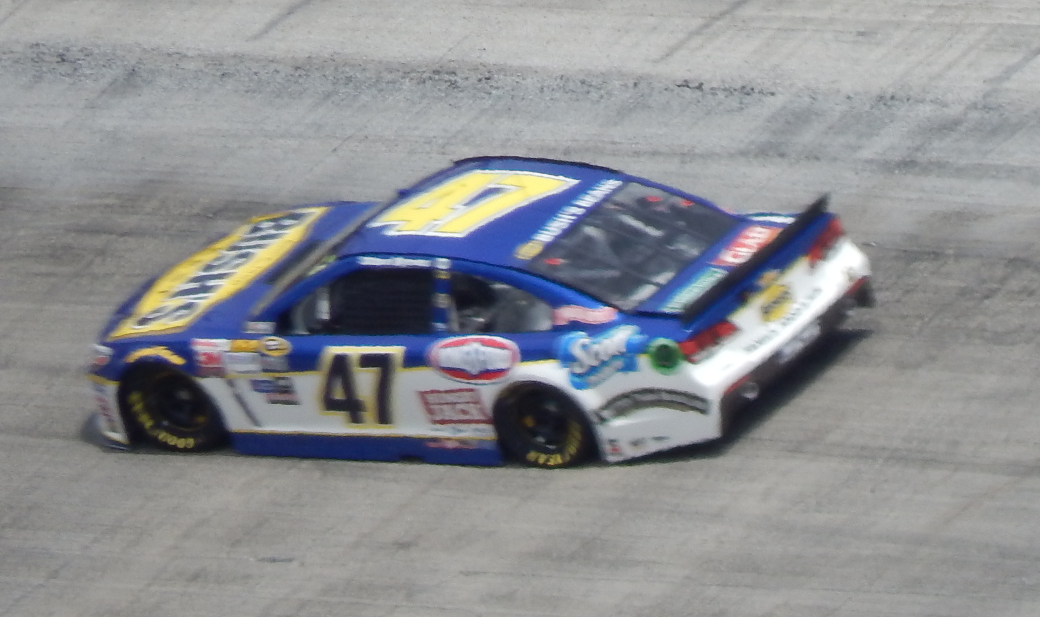 A. J. Allmendinger rounding turn 1 at Bristol Motor Speedway.